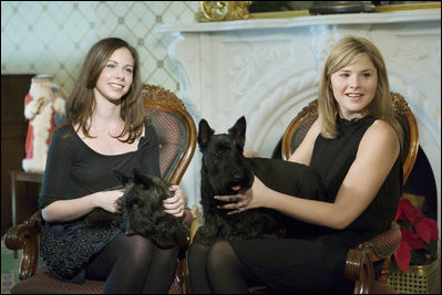 Barbara Barbara and Jenna Bush with Bush's pets Beazley and Barney in the Lincoln Bedroom at the White House.